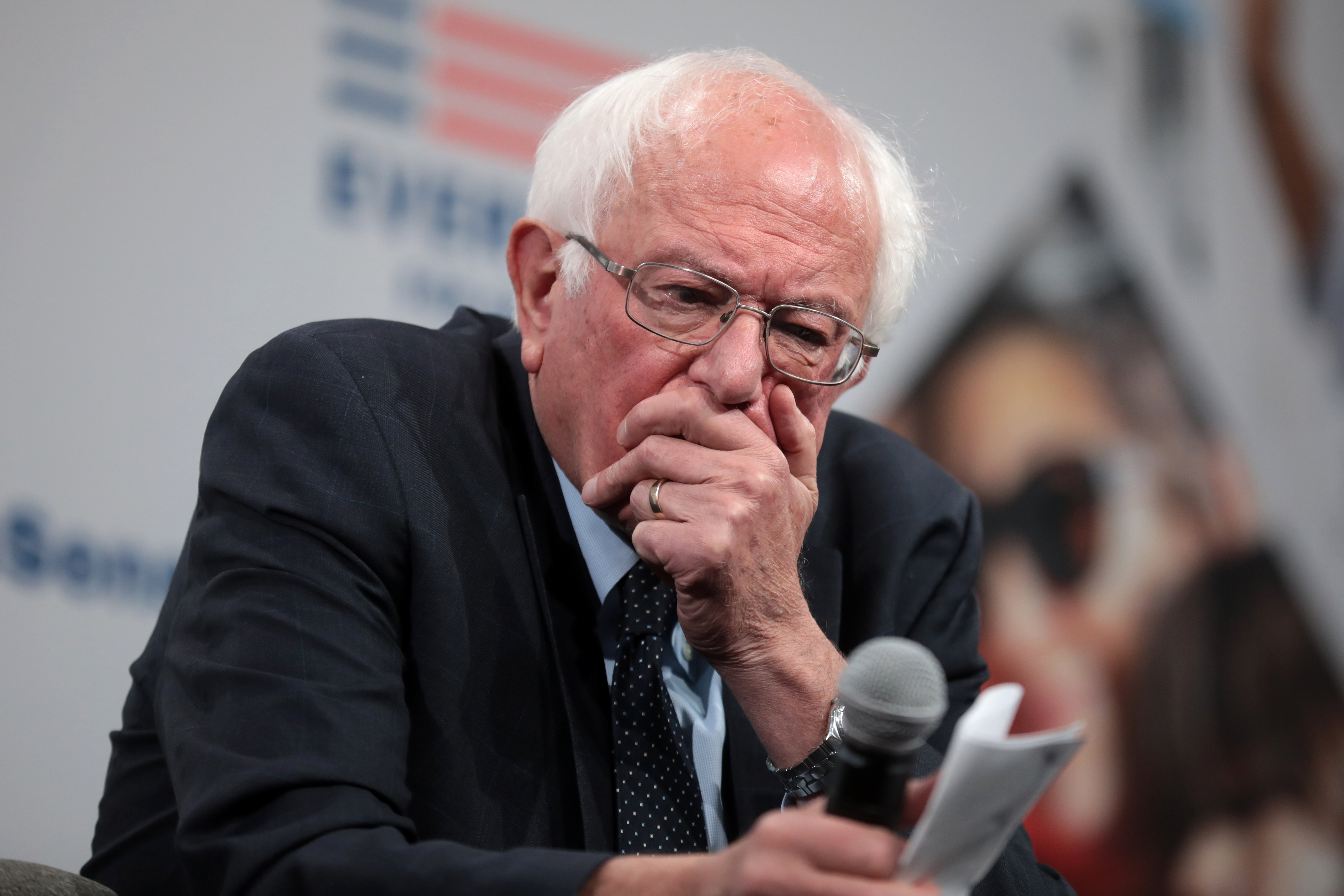 U.S. Senator Bernie Sanders speaking with attendees at the Presidential Gun Sense Forum hosted by Everytown for Gun Safety and Moms Demand Action at the Iowa Events Center in Des Moines, Iowa.